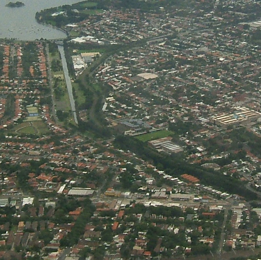 Aerial view of the Metropolitan Goods railway line through Haberfield and Leichhardt. This section of track forms part of the Metro Light Rail extension from Lilyfield to Dulwich Hill.